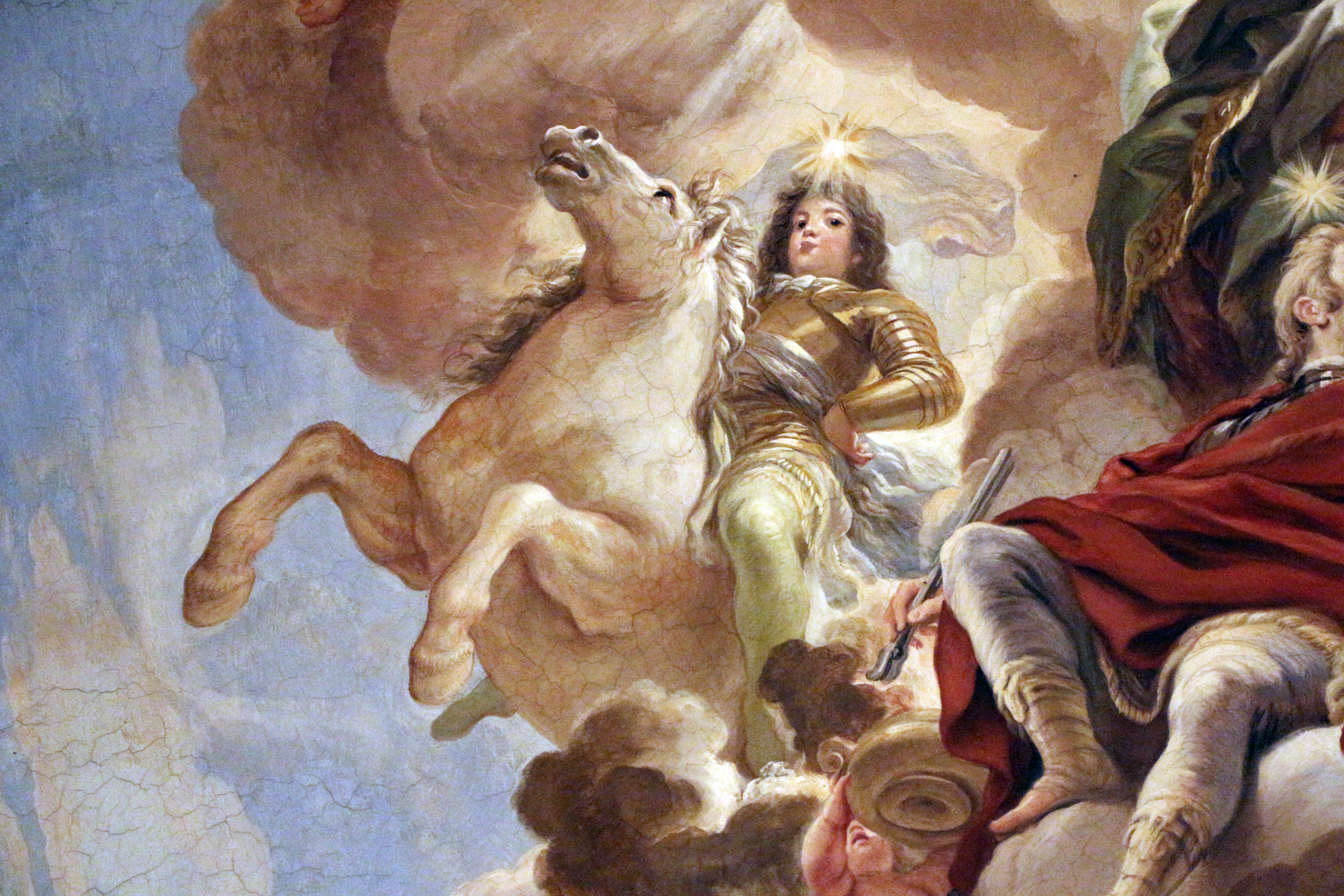 Apotheosis of the Medici family by Luca Giordano